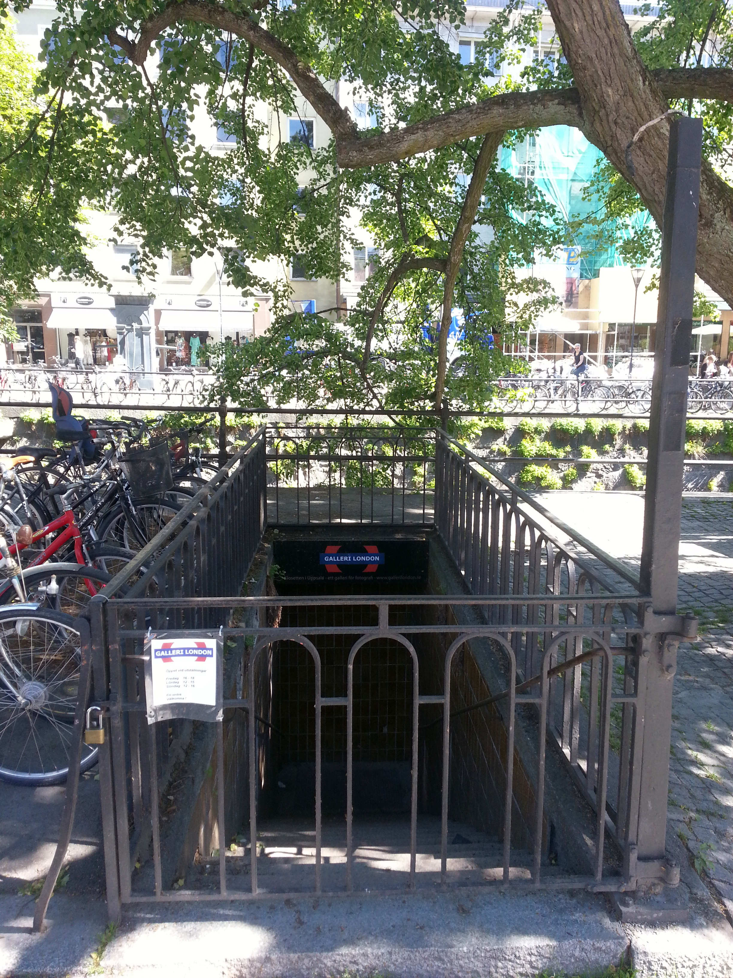 Entrance of the art gallery "London" in Uppsala